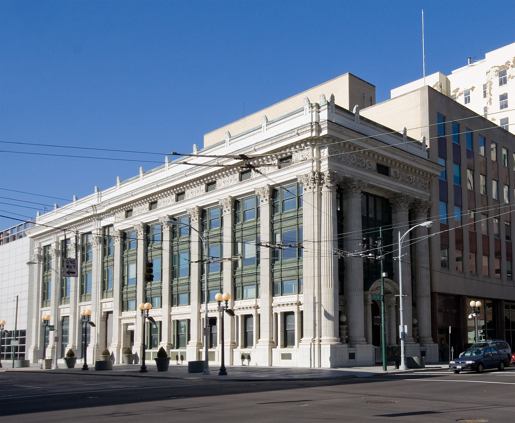 Dayton Daily News building at 4th and Ludlow. Photo by Greg Hume